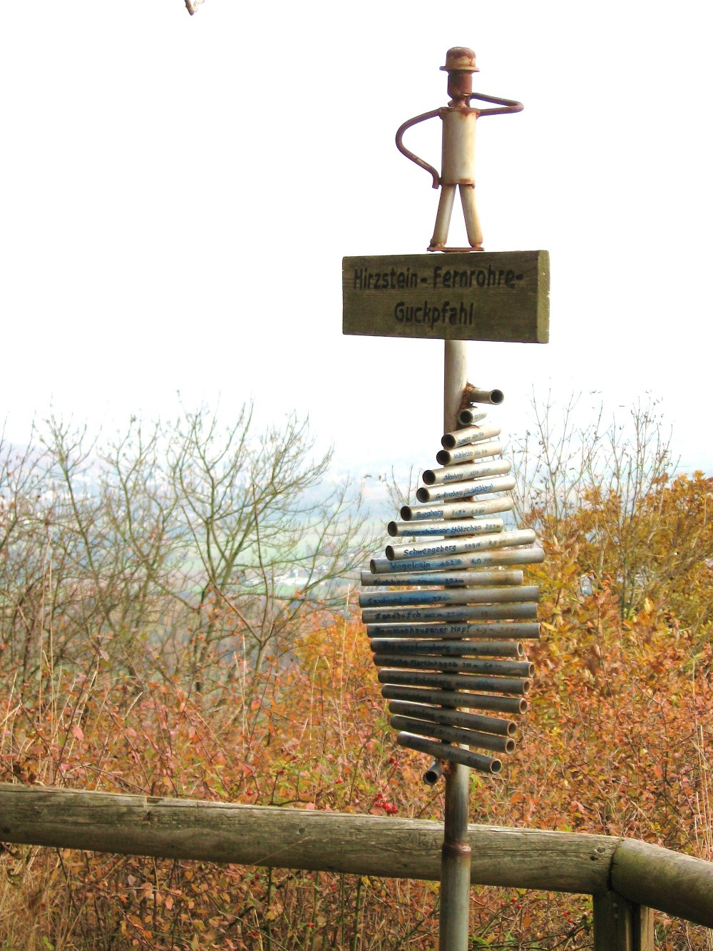 Germany / North Hesse / Guckpfahl at the look-out "Hirzstein" in the Habichtswald Mountains